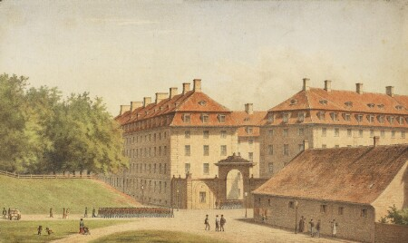 Sælvgade Barracks seen from Kongens Have in Copenhagen, Denmark